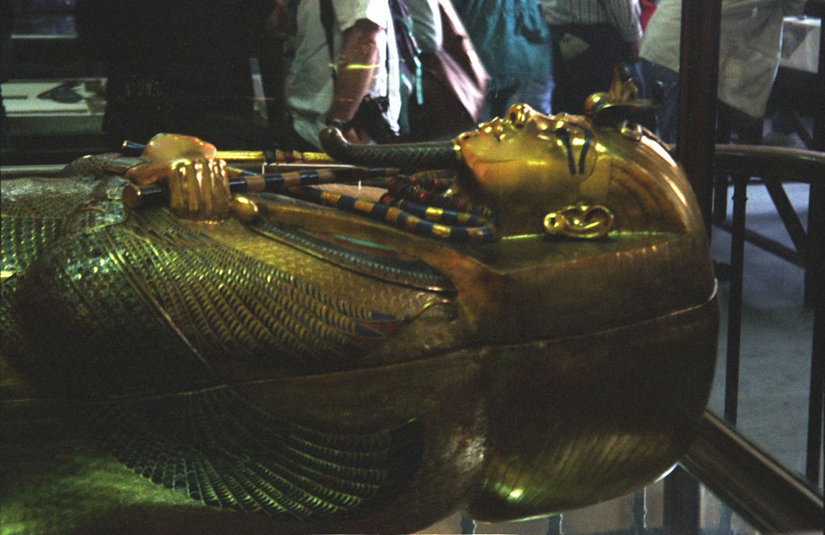 Tutankhamun